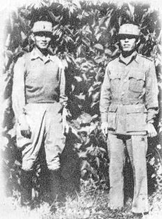 GENERAL CHENG TUNG-KUO CONFERRING WITH GENERAL SUN AT THE FRONT